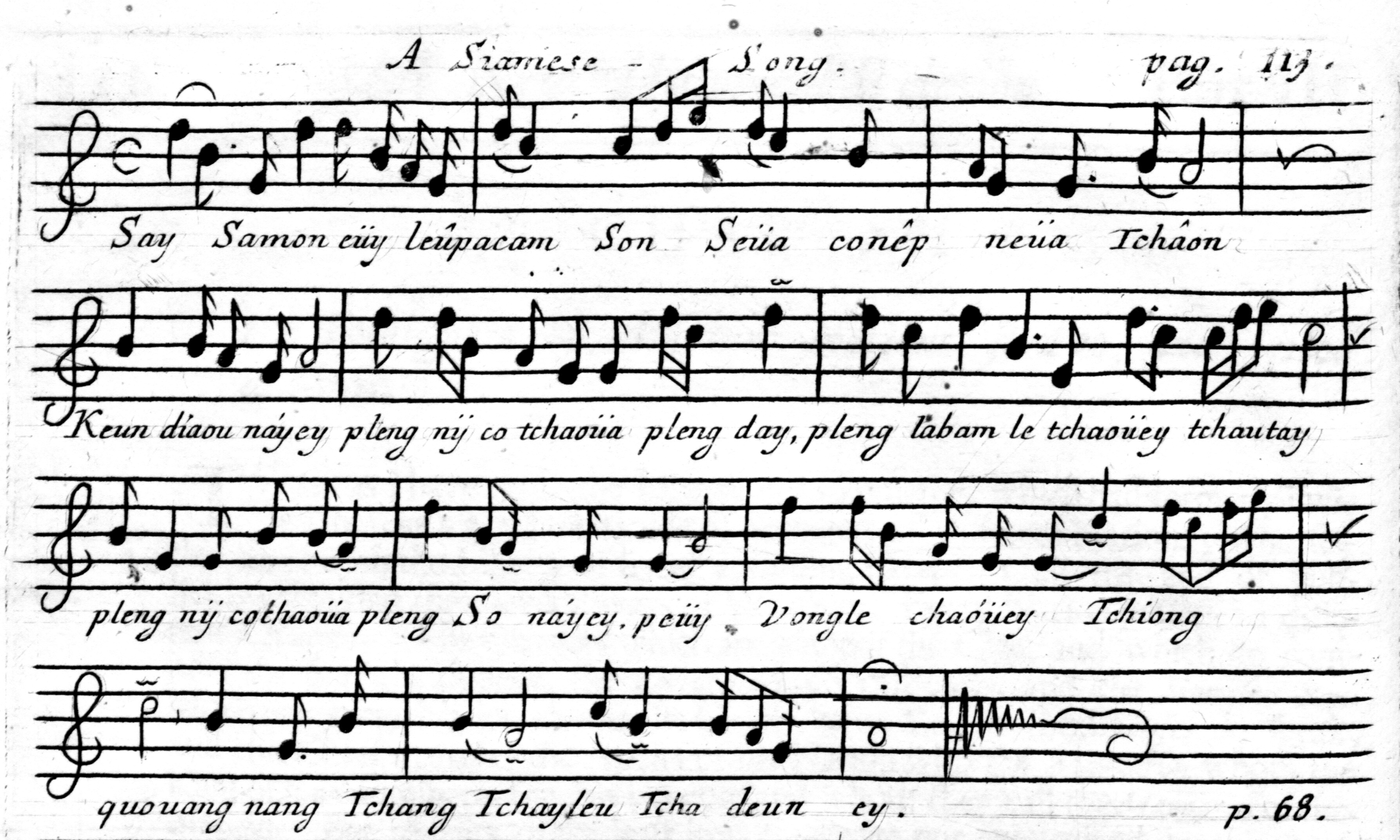 Notation for "A Siamese Song", from Simon de la Loubère's A New Historical Relation of the Kingdom of Siam, page 113